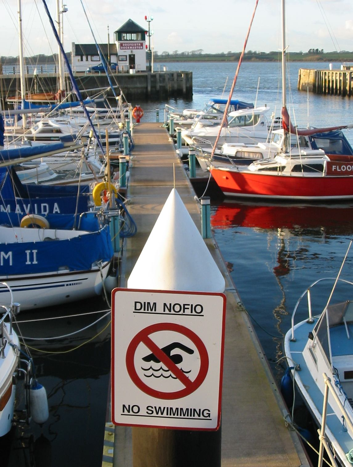 Caernarfon dock bilingual no swimming sign